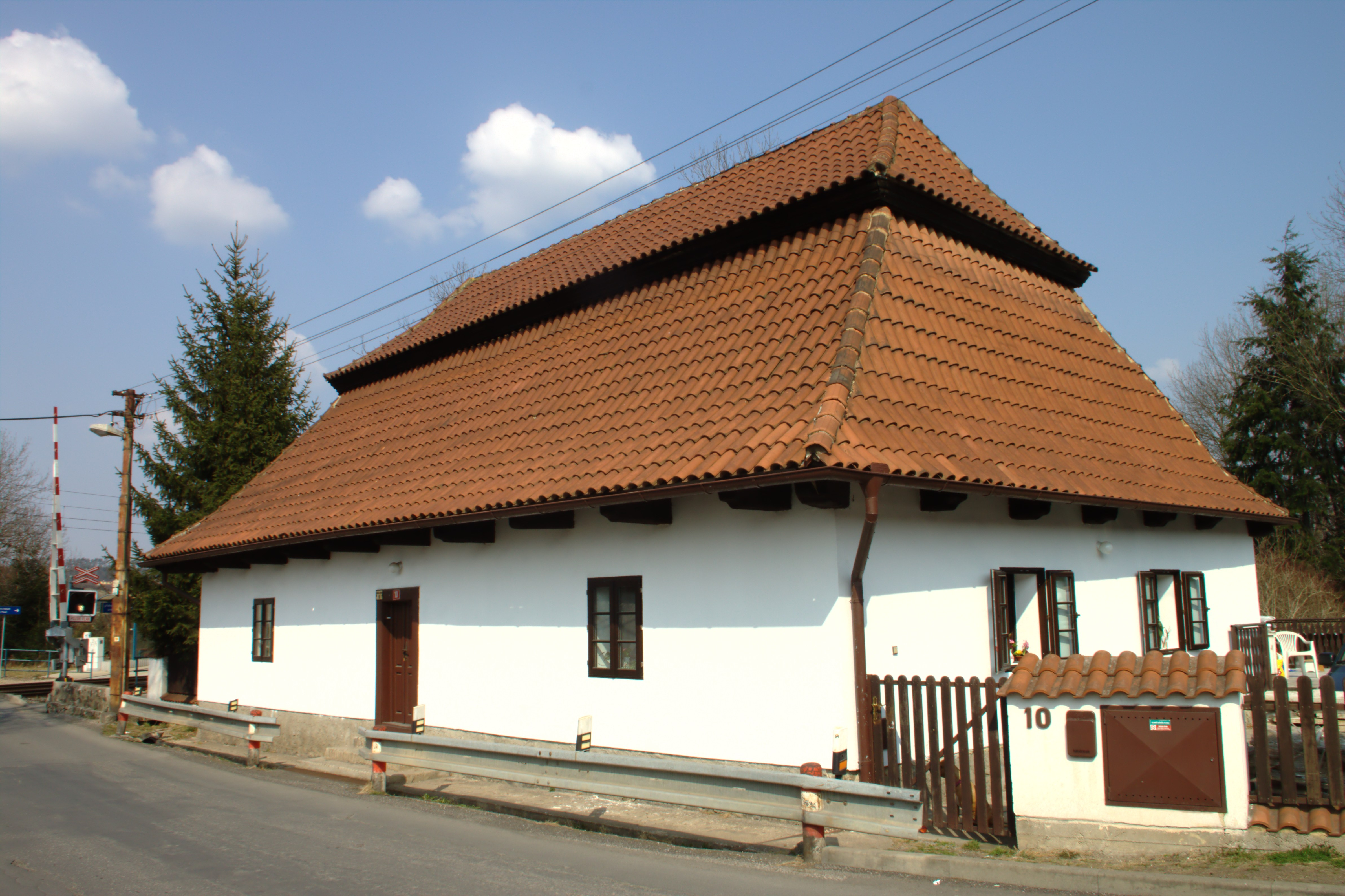 An preserved historical house in Králův Dvůr-Popovice, Central Bohemian Region, CZ